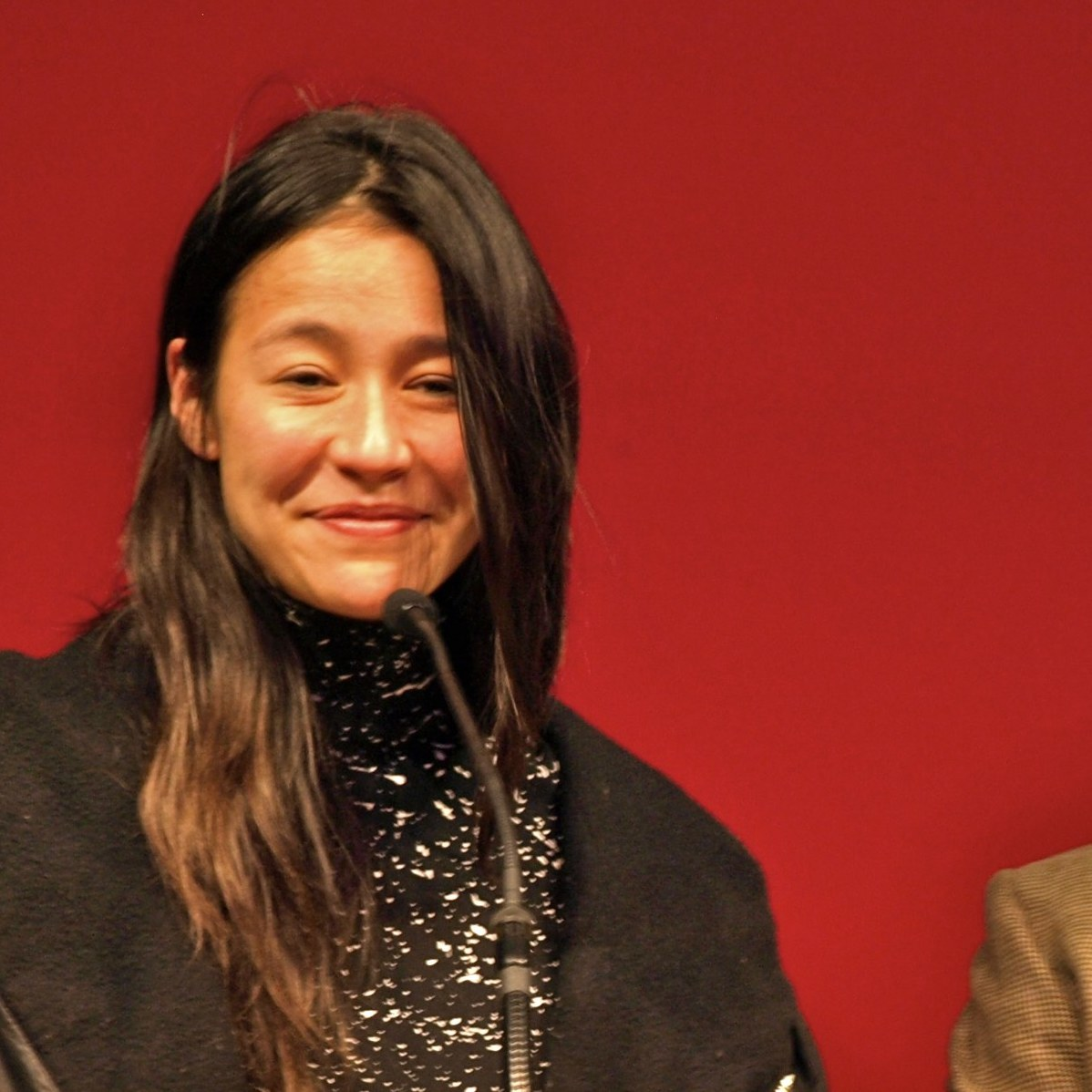 E. Chai Vasarhelyi and Jimmy Chin Winner of Audience Award: U.S. Documentary: Meru at Sundance 2015